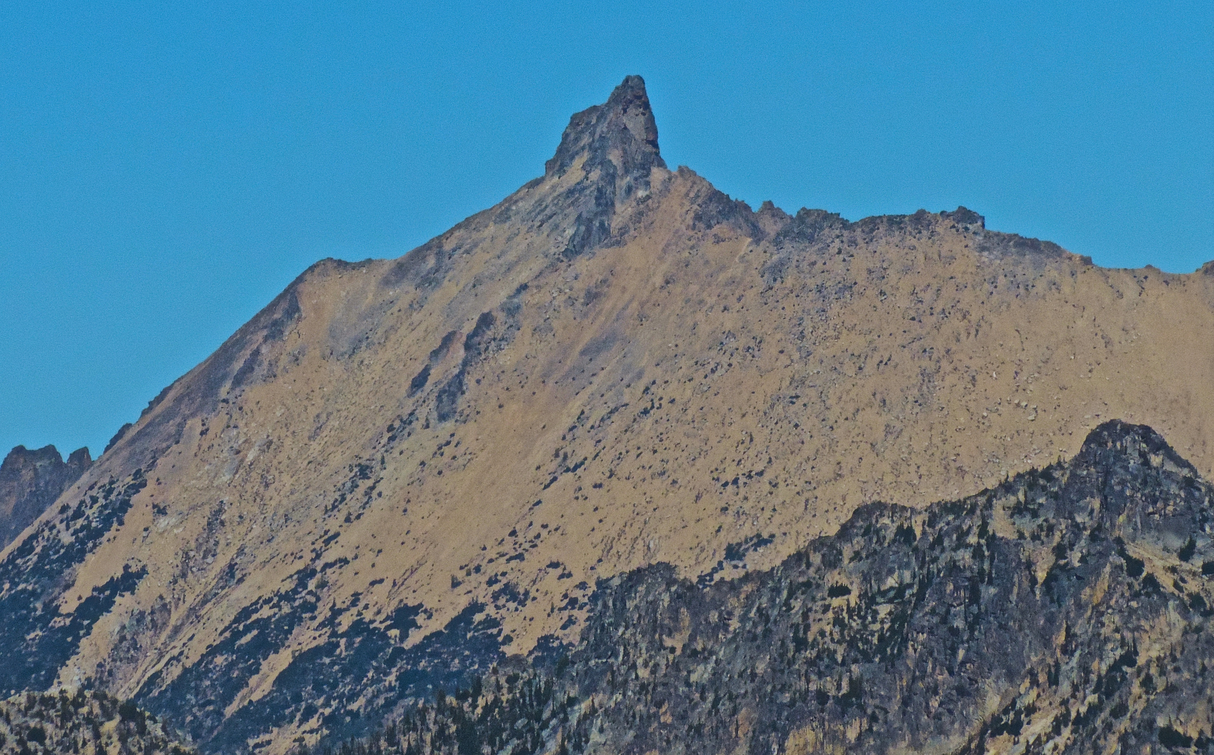 Golden Horn in Washington state